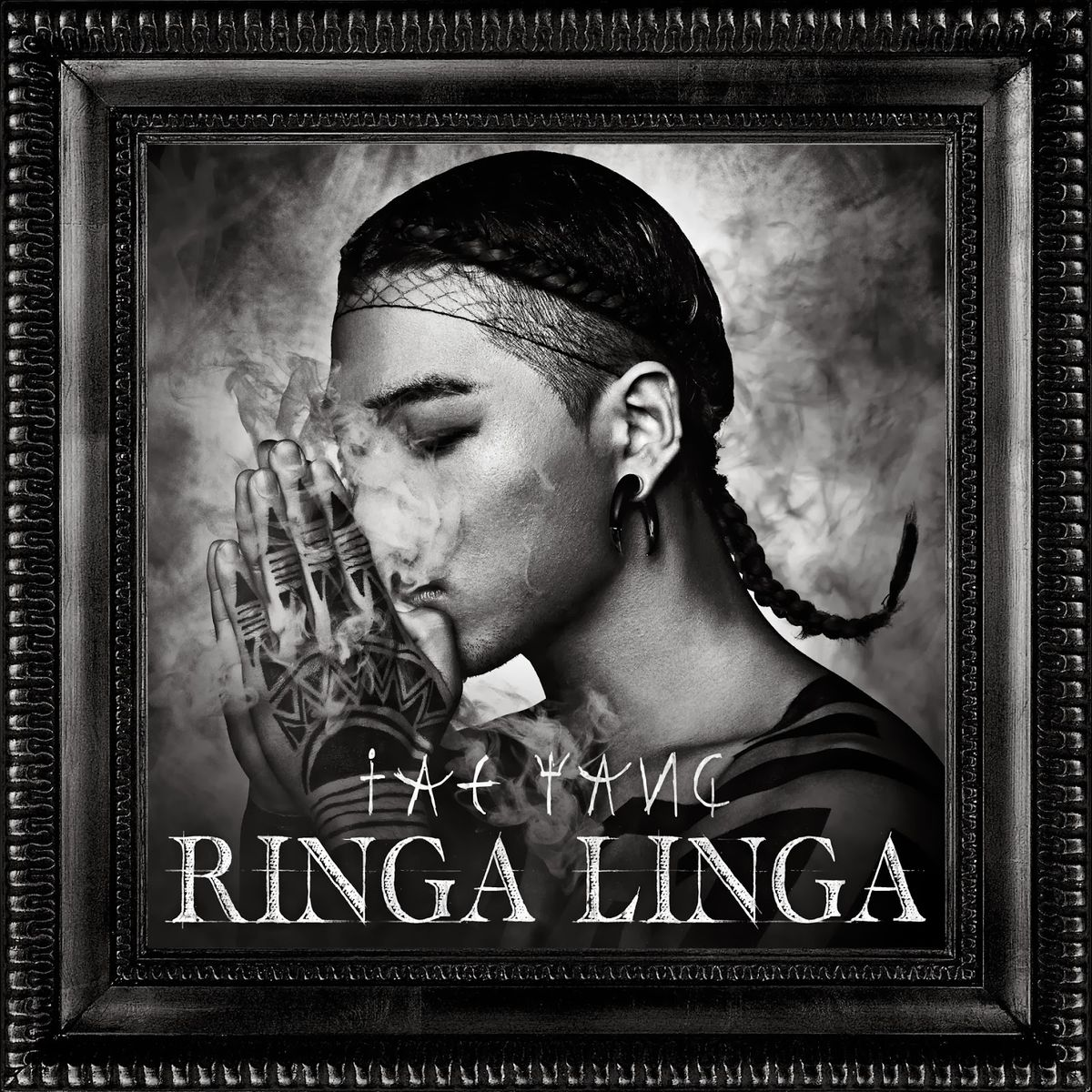 Taeyang - Ringa Linga album cover